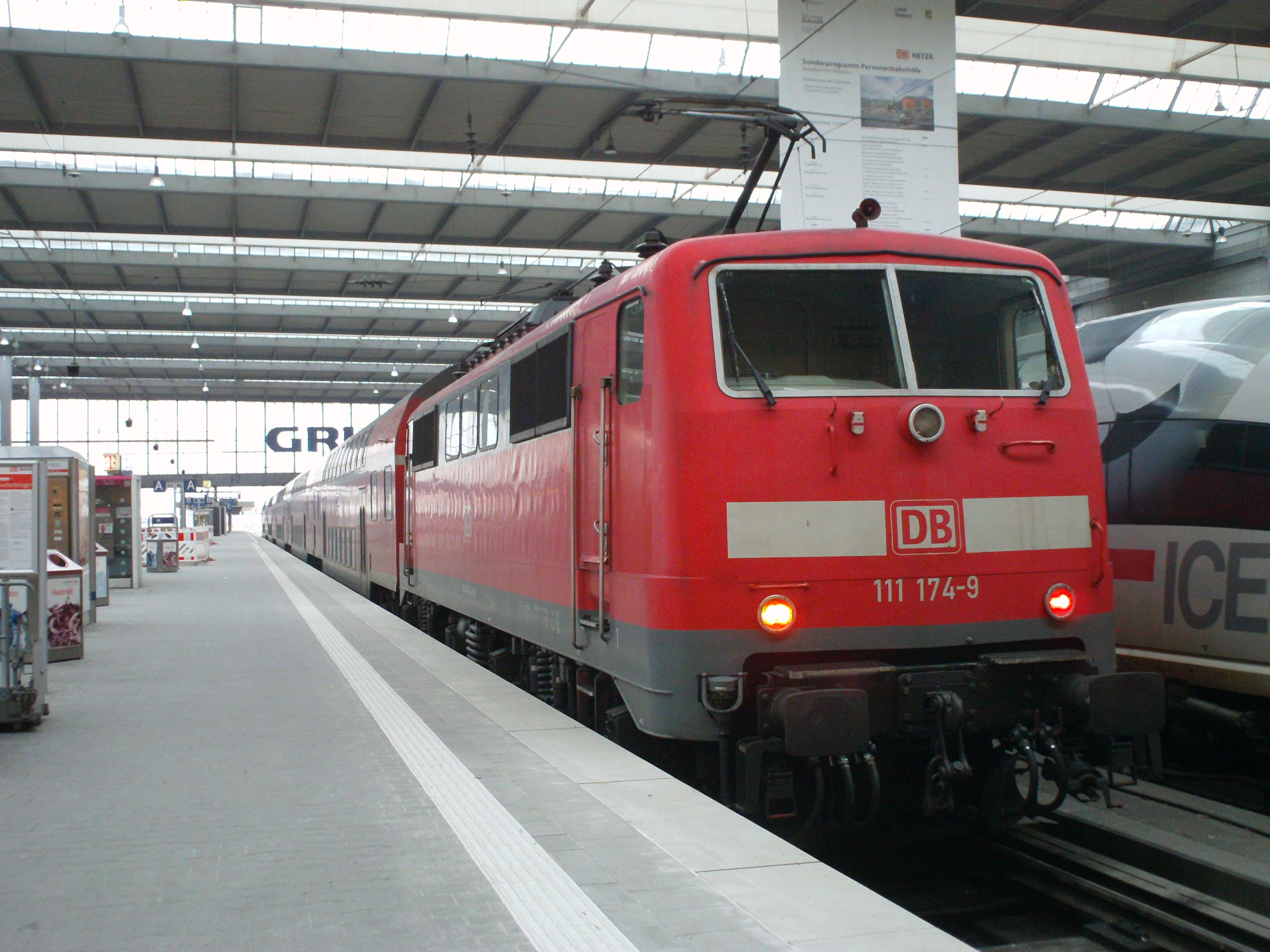 Trains at München Hauptbahnhof